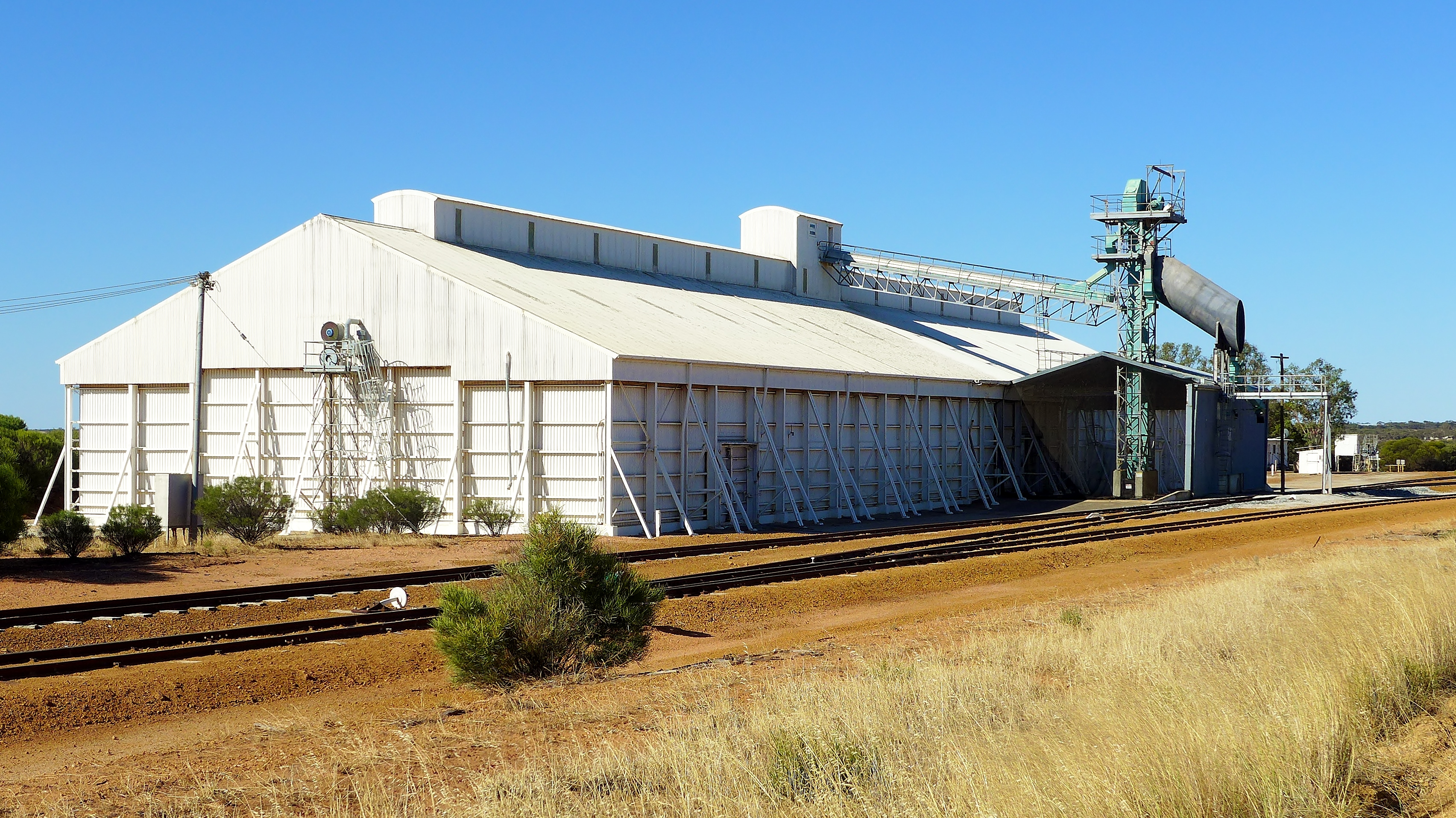 View of the CBH grain receival point at Kulja, Western Australia.